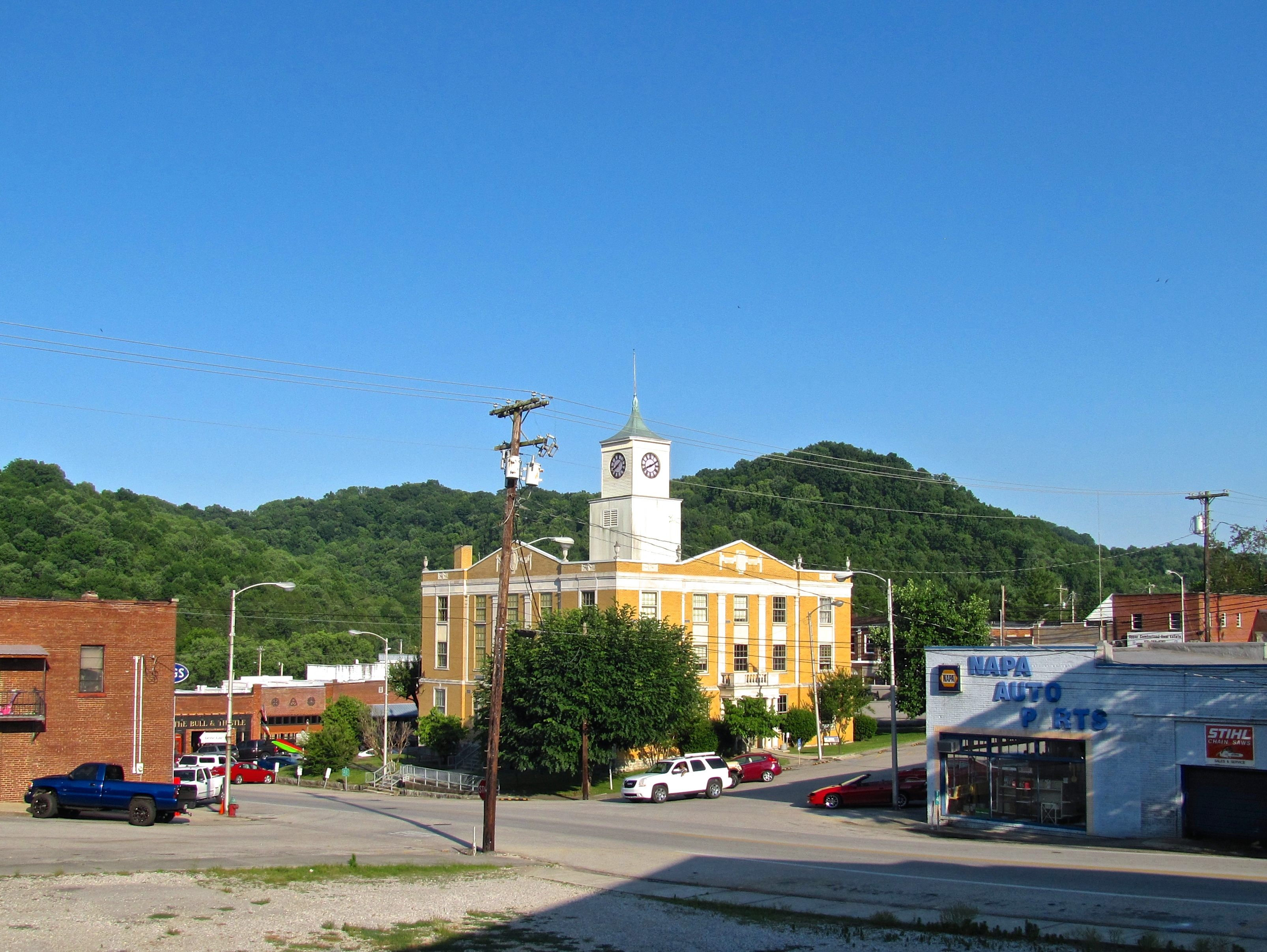 The Jackson County Courthouse in Gainesboro, Tennessee, United States, looking southeast from the corner of Union and Hull.